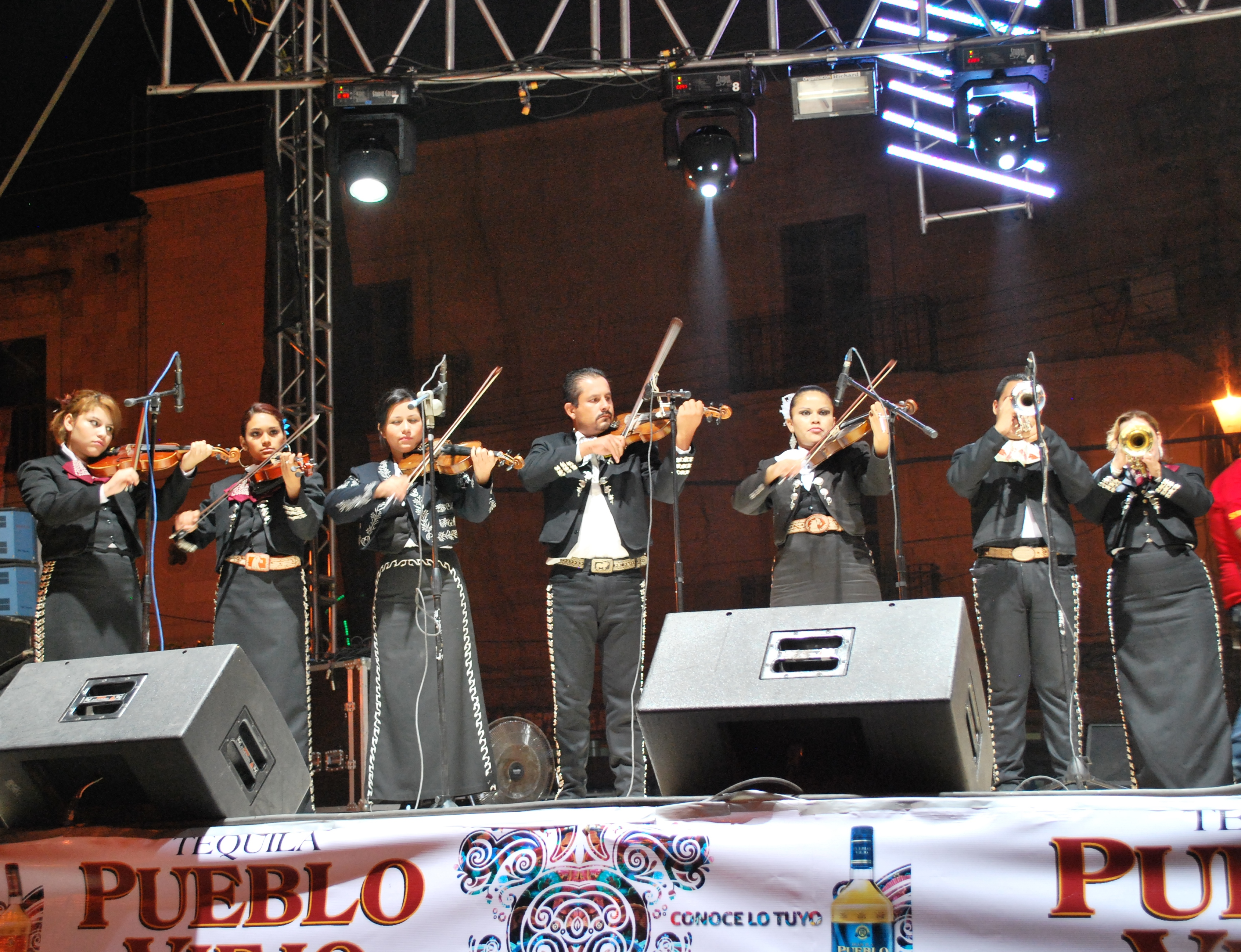 Mariachi at the Festival del Mariachi, Charrería y Tequila in San Juan de los Lagos, Mexico